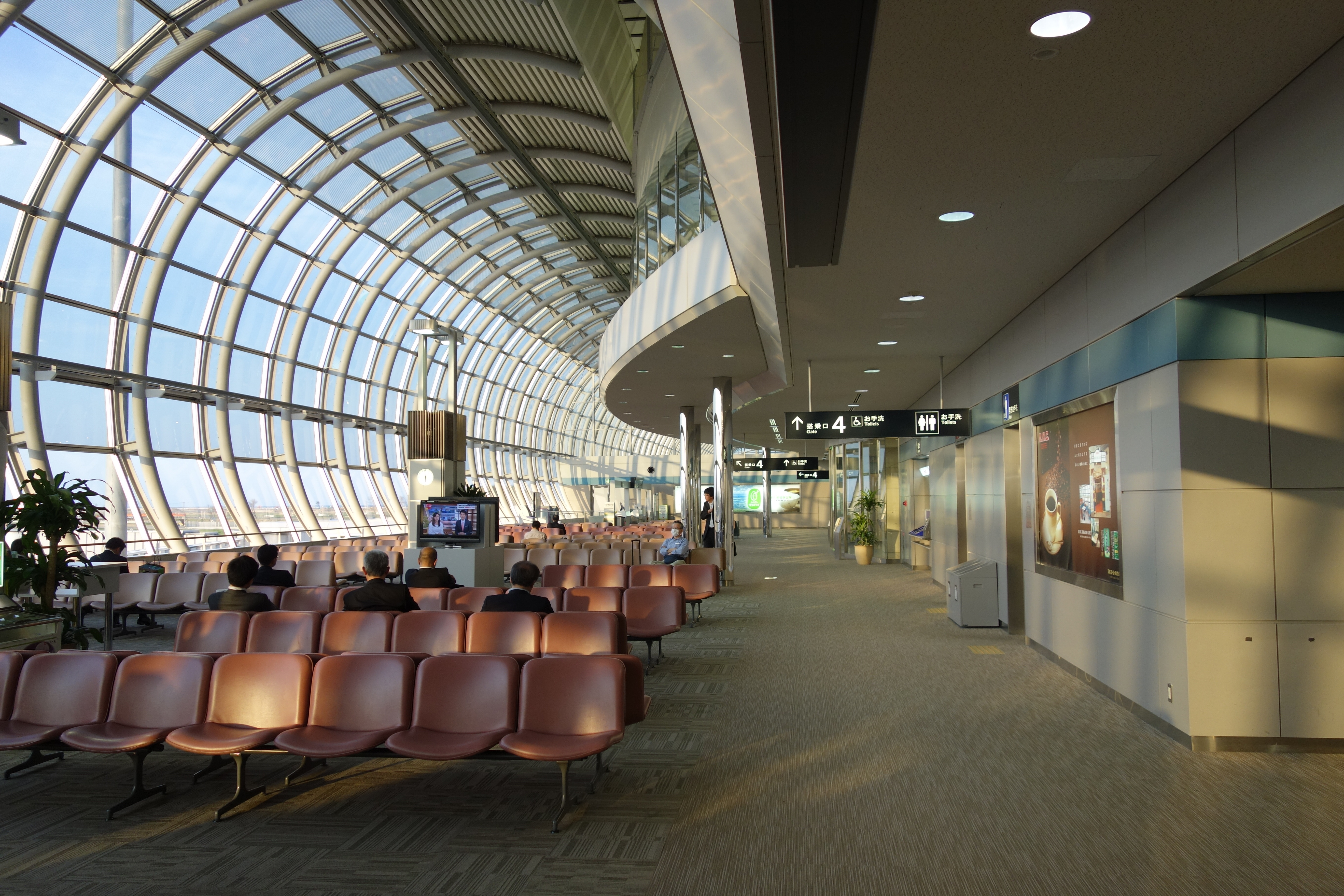 Sendai airport